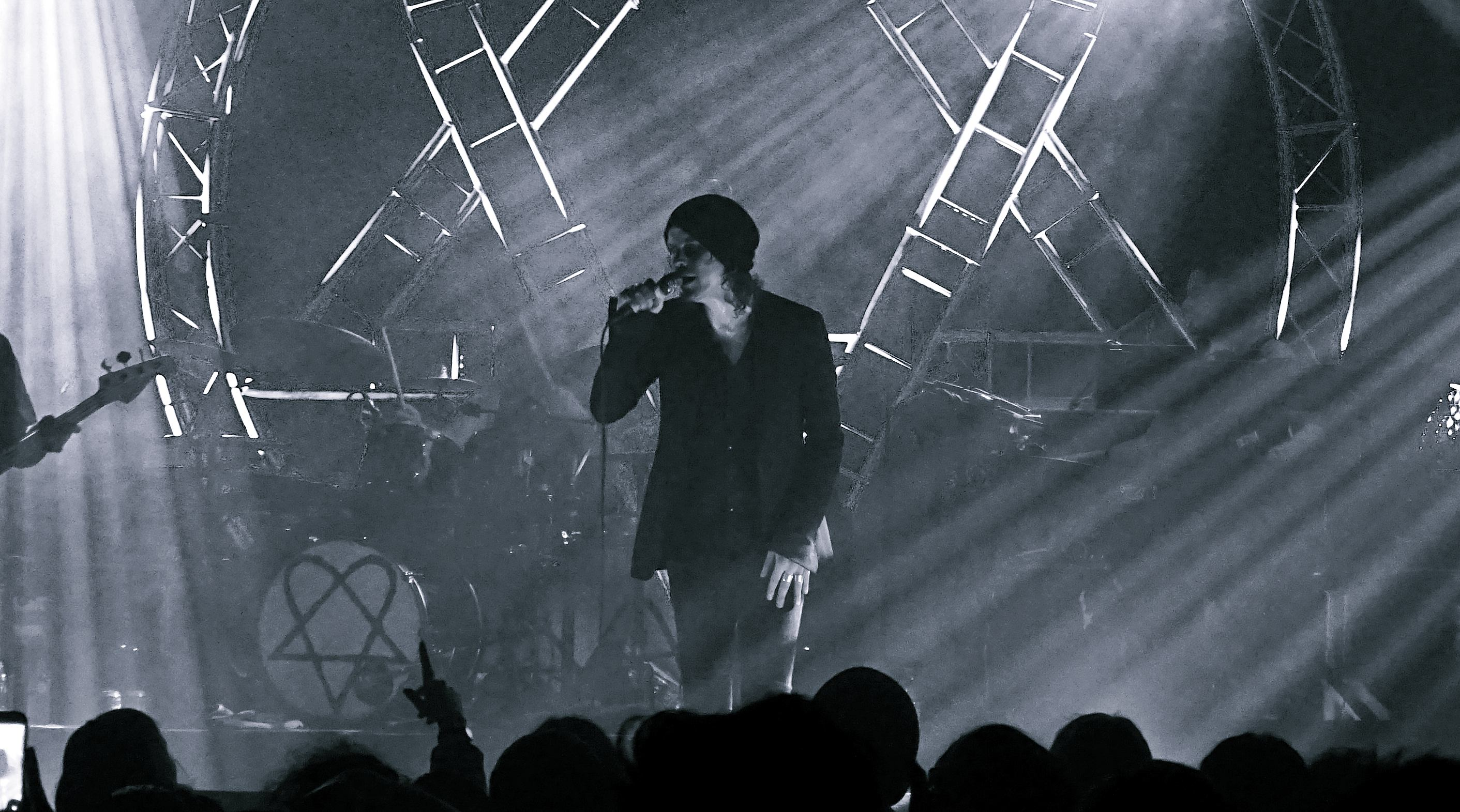 HIM performing in Manchester, England on 16 December 2017.